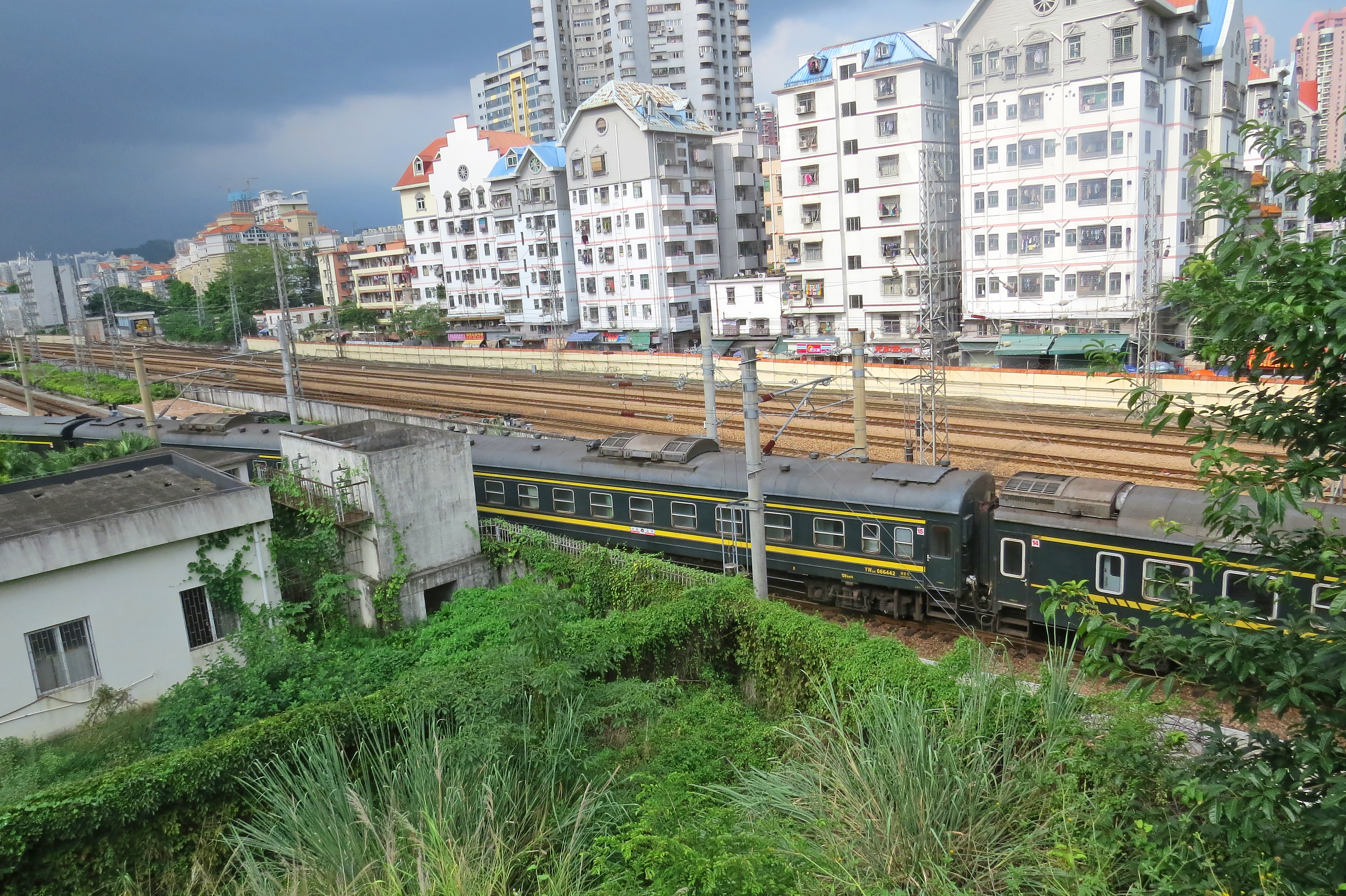 K9076 has two 22BGs.